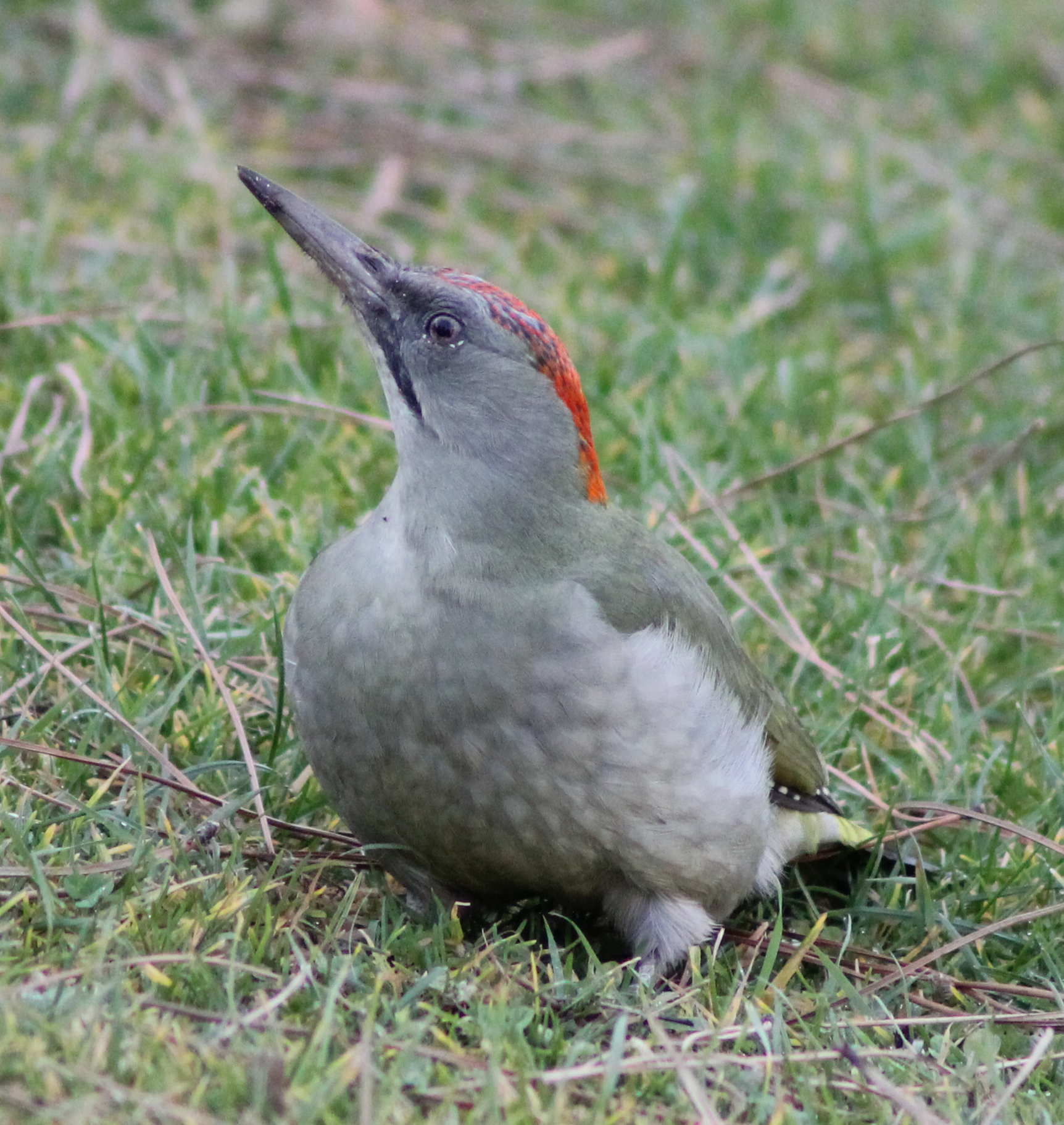 A female Iberian Woodpecker (Picus sharpei) in Madrid (Spain).